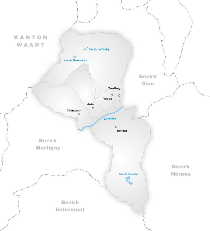 Municipalities of District Conthey